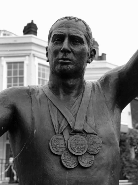 Close up of statue to Sir Steve Redgrave overlooking the Thames at Marlow.